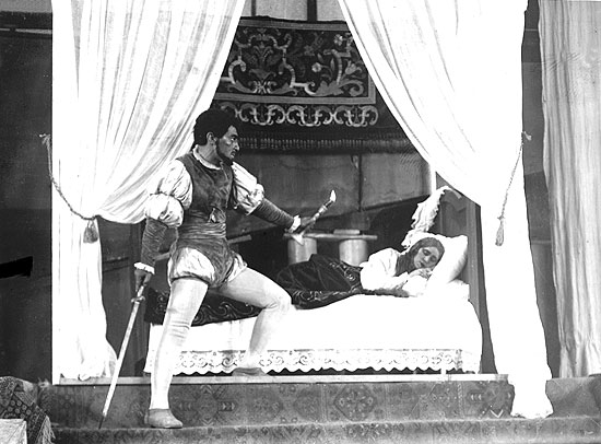 Ulvi Rajab and Marziya Davudova (Otello). Turkic Artistic Theater. 1931-32